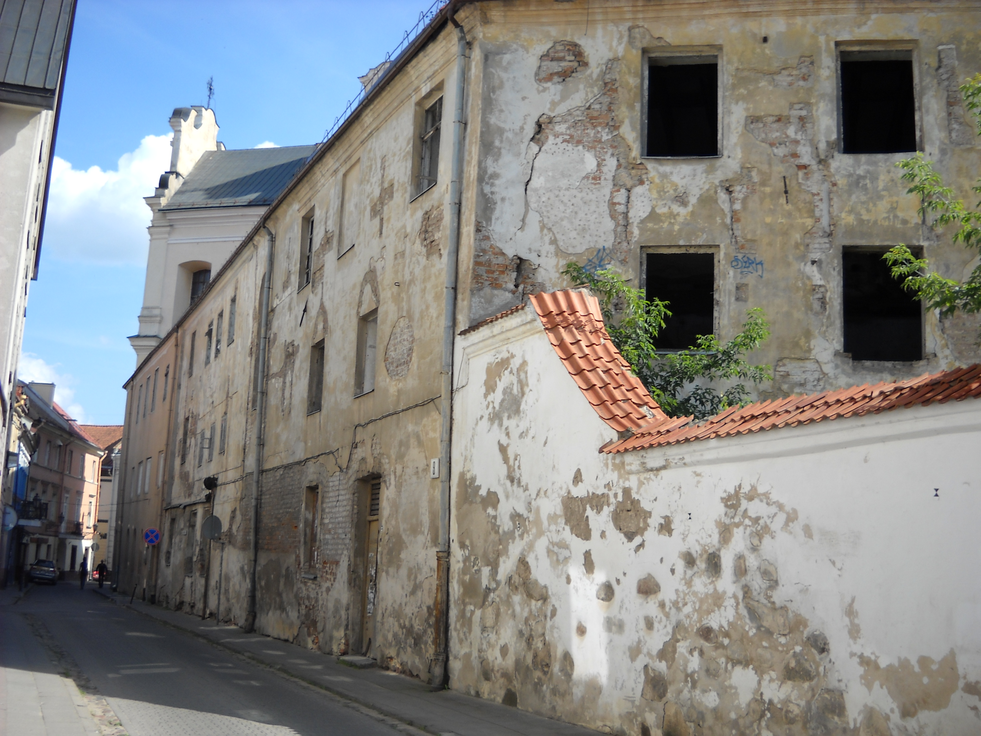 Ruins of Dominican monastery in Vilnius.